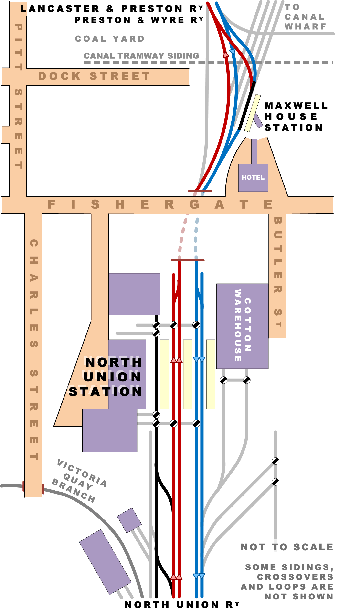 Layout of Preston railway station, Lancashire, England, before 1850. Loosely based on diagram in Rush, R.W. (1983), The East Lancashire Railway, Oakwood Press, ISBN 0 85361 295 1, p.24, and on First Edition Ordnance Survey Map of Preston reproduced in Hodge, A. (1997), History of Preston, Carnegie Publishing, Preston, ISBN 1-85936-049-1, p. 37.